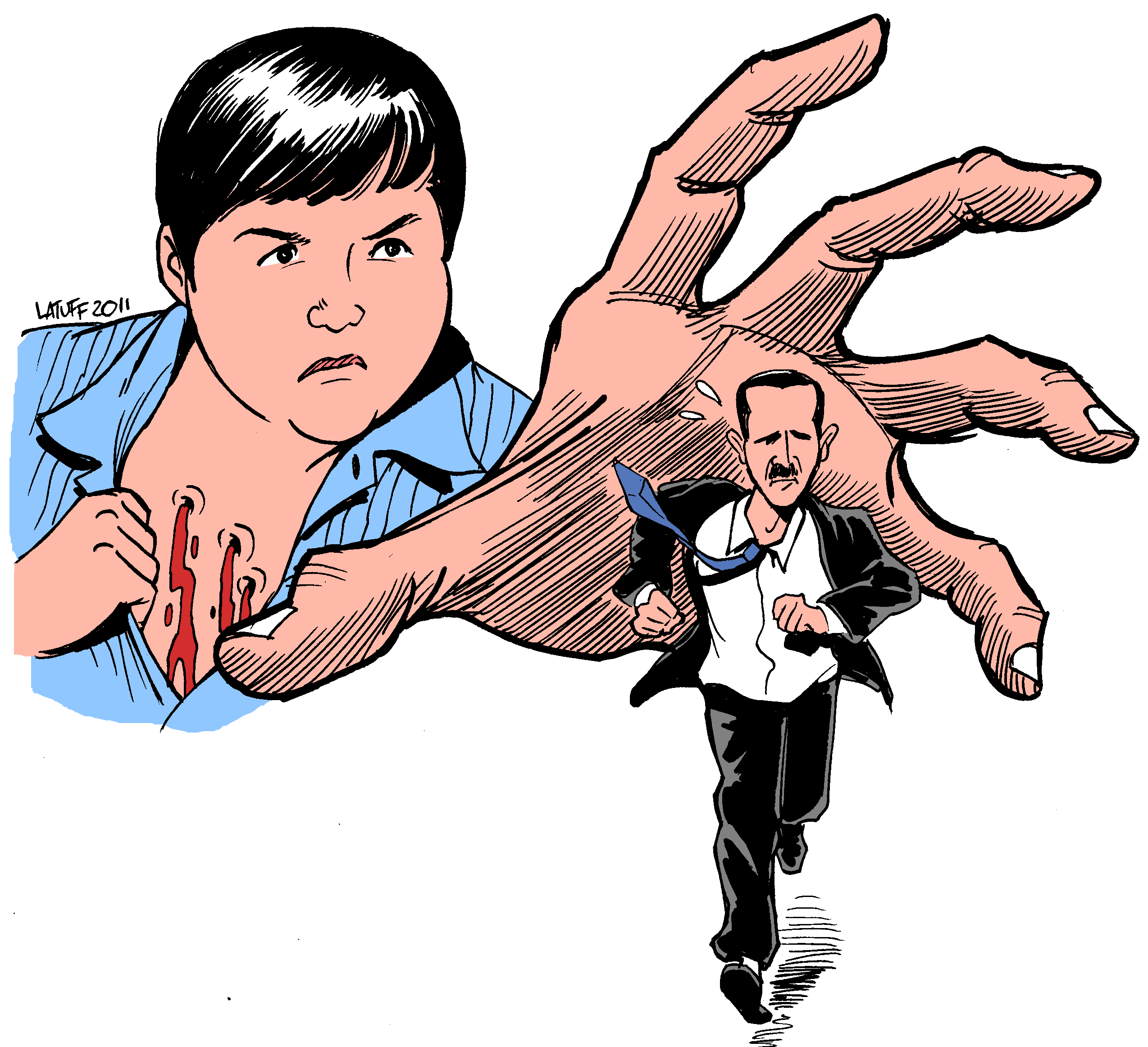 Hamza Ali Al-Khateeb is 13 year old boy that was tortured & killed by Syrian forces, sparking the war in syria.